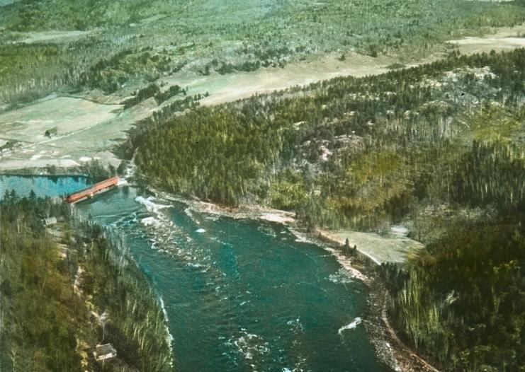 Photograph, glass lantern slide, Gatineau River near Farrellton, QC, about 1930, Anonymous, Silver salts and transparent ink on glass - Gelatin dry plate process, 8 x 10 cm